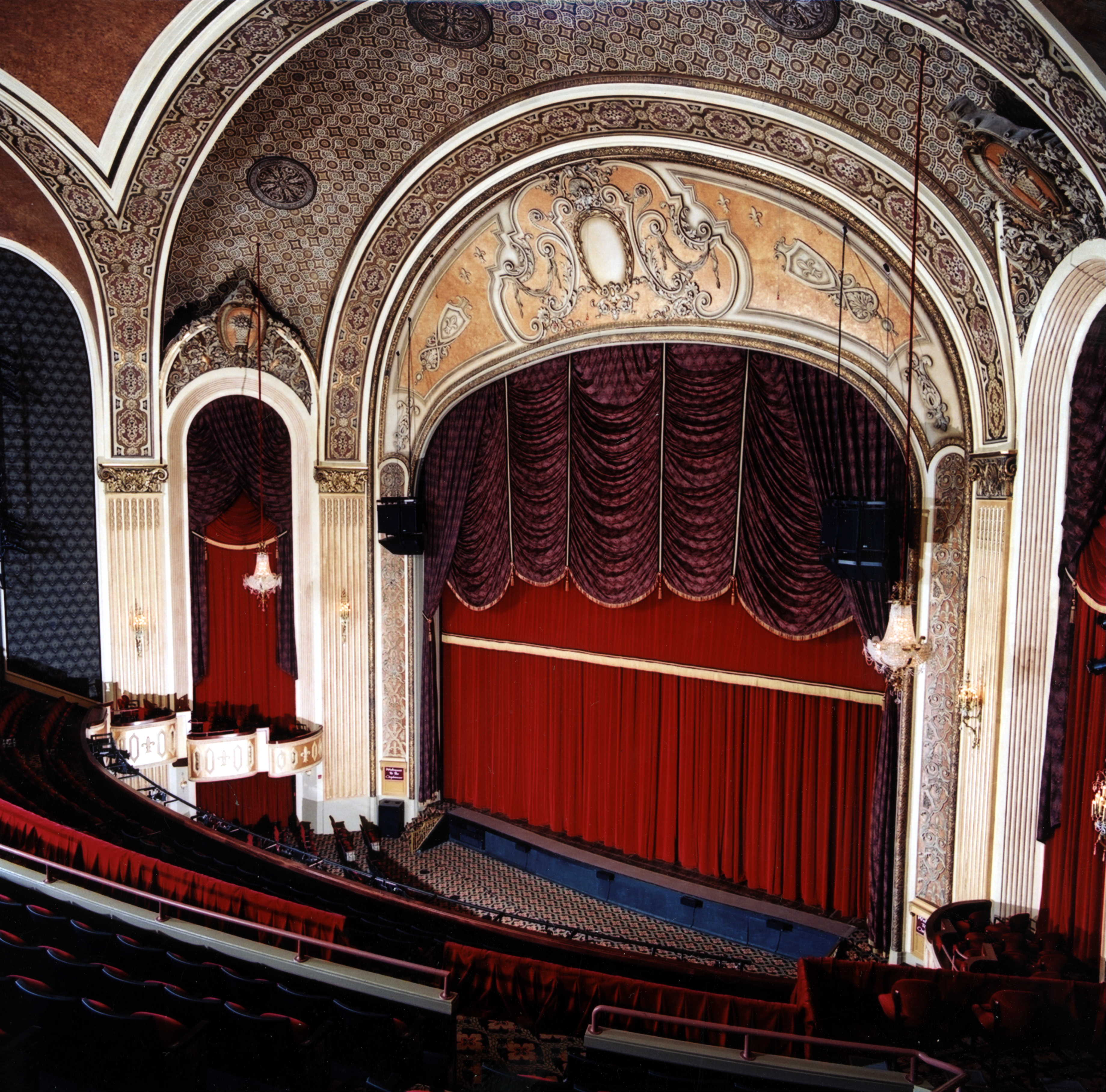 Orpehum Theatre, Sioux City, Iowa